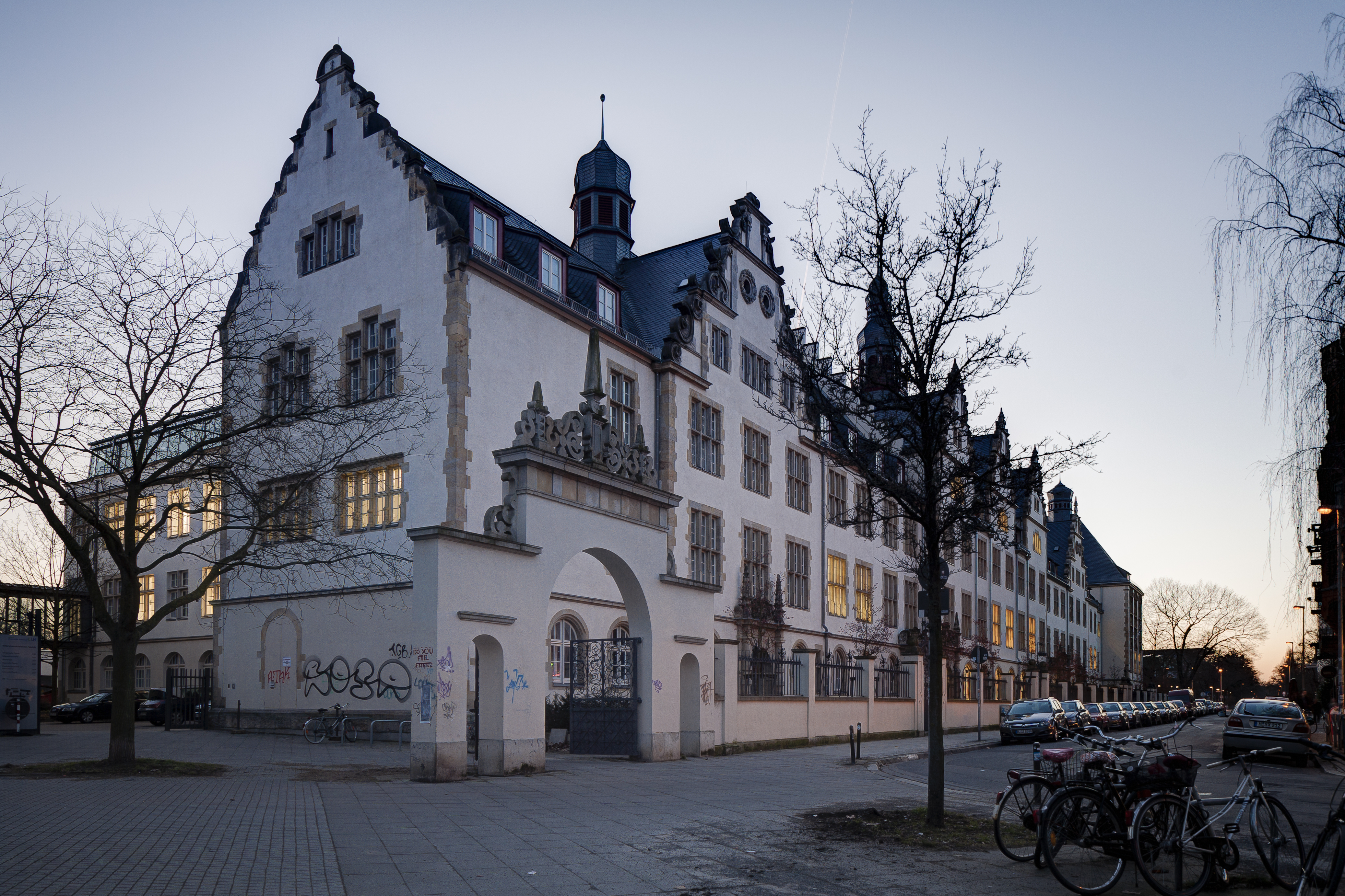 Chemistry building of the university of Hanover, Germany, located in the Callinstrasse. It was errected in 1909 and entirely refurbished from 2007 to 2011.